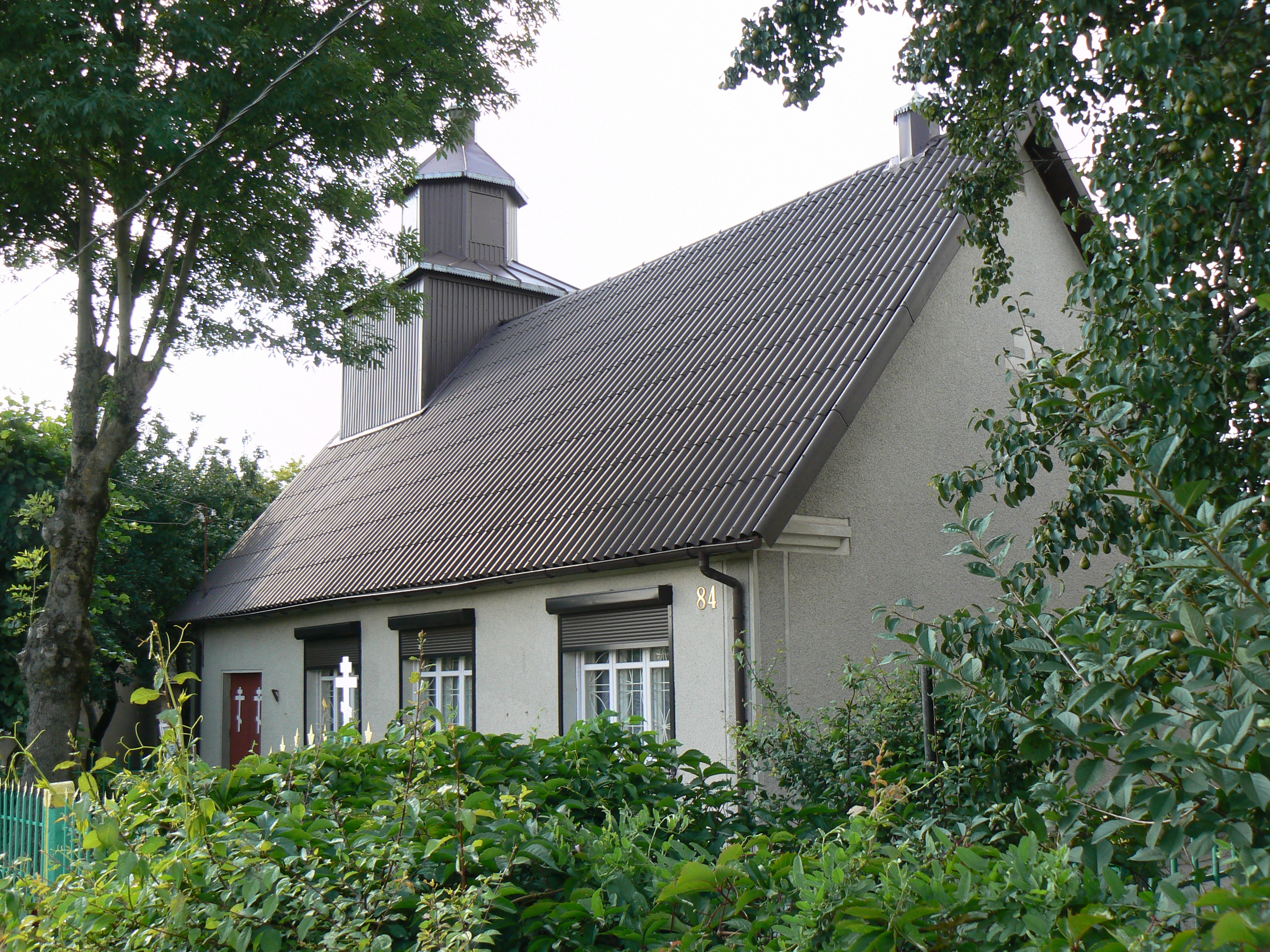 Klaipėda's old-orthodox community Church